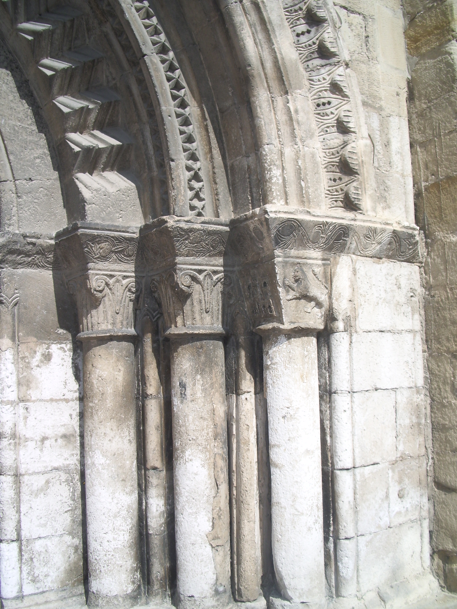 Espiritu Santo church in Miranda de Ebro with the emblems of Castile and Leon.